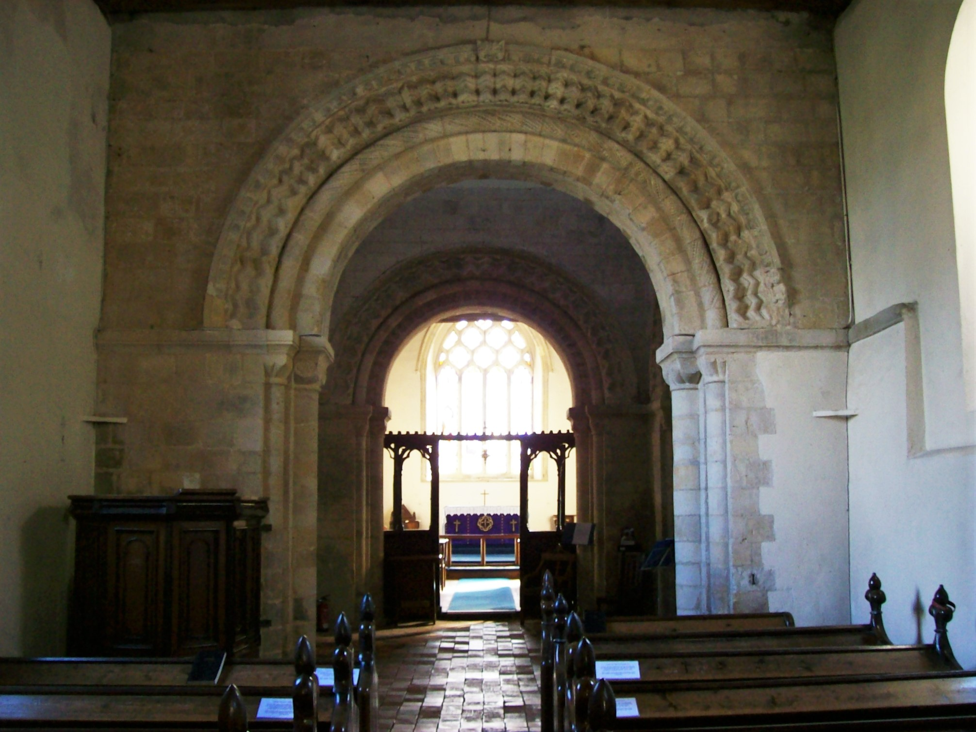 St Nicholas, Old Shoreham, interior